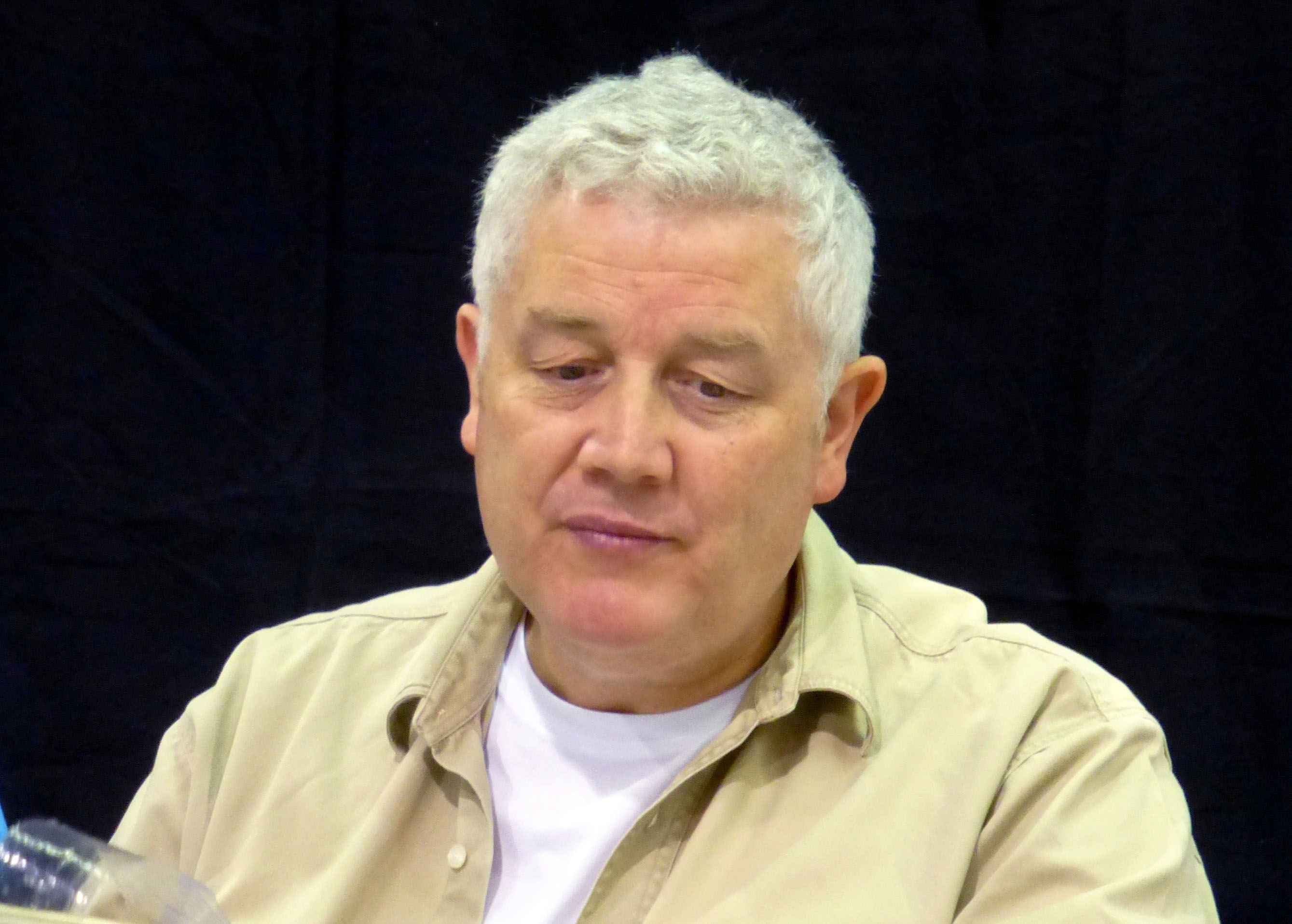 Longtime X-Men artist/writer, Alan Davis